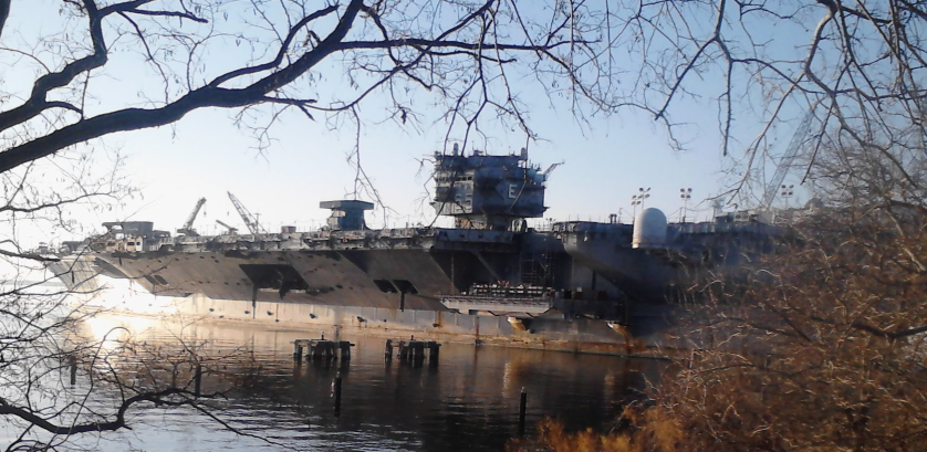 Dismantling of a U.S. aircraft carrier in Newport News, Virginia.